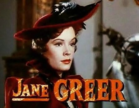 American actress Jane Greer (1924-2001) in The Prisoner of Zenda - trailer (cropped screenshot)